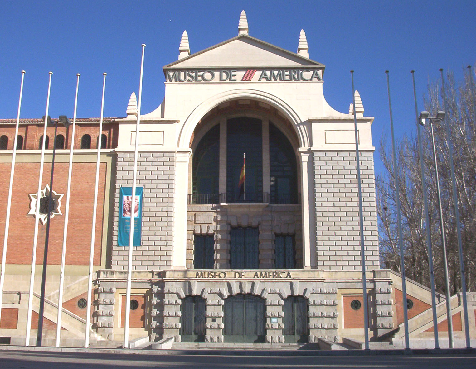 Museum of the Americas in Madrid (Spain). Building projected by architects Luis Moya Blanco and Luis Martínez-Feduchi Ruiz, and built between 1944 and 1953.